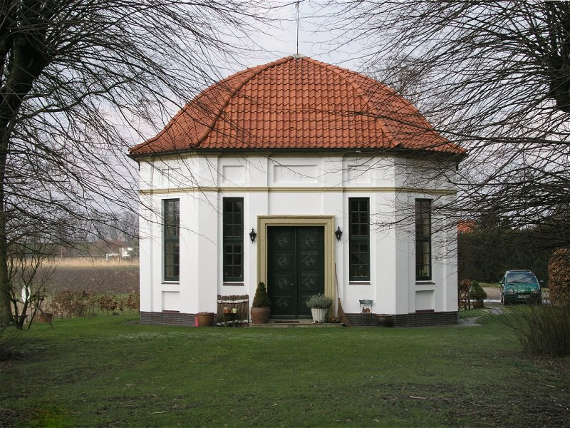 Seestermühe (Germany), Tea house, built 1760